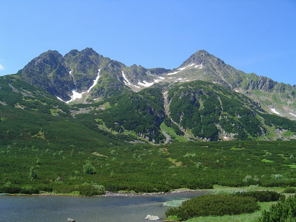 Jahnaci stit over Velke Biele pleso